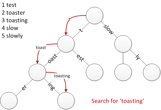 This picture displays a Patricia trie with five strings in addition to the search path taken from the root to a specific string.